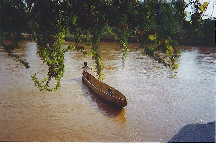 Tana River ferry, Hola, Kenya. This is my photo. OK for free license